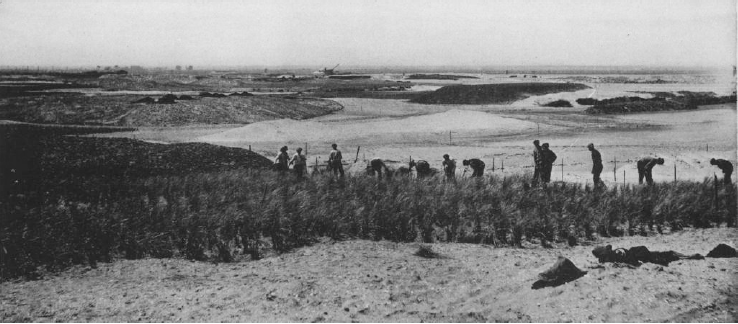 Construction on the 17th Fairway at the Lido Golf Course, Long Island, New York.